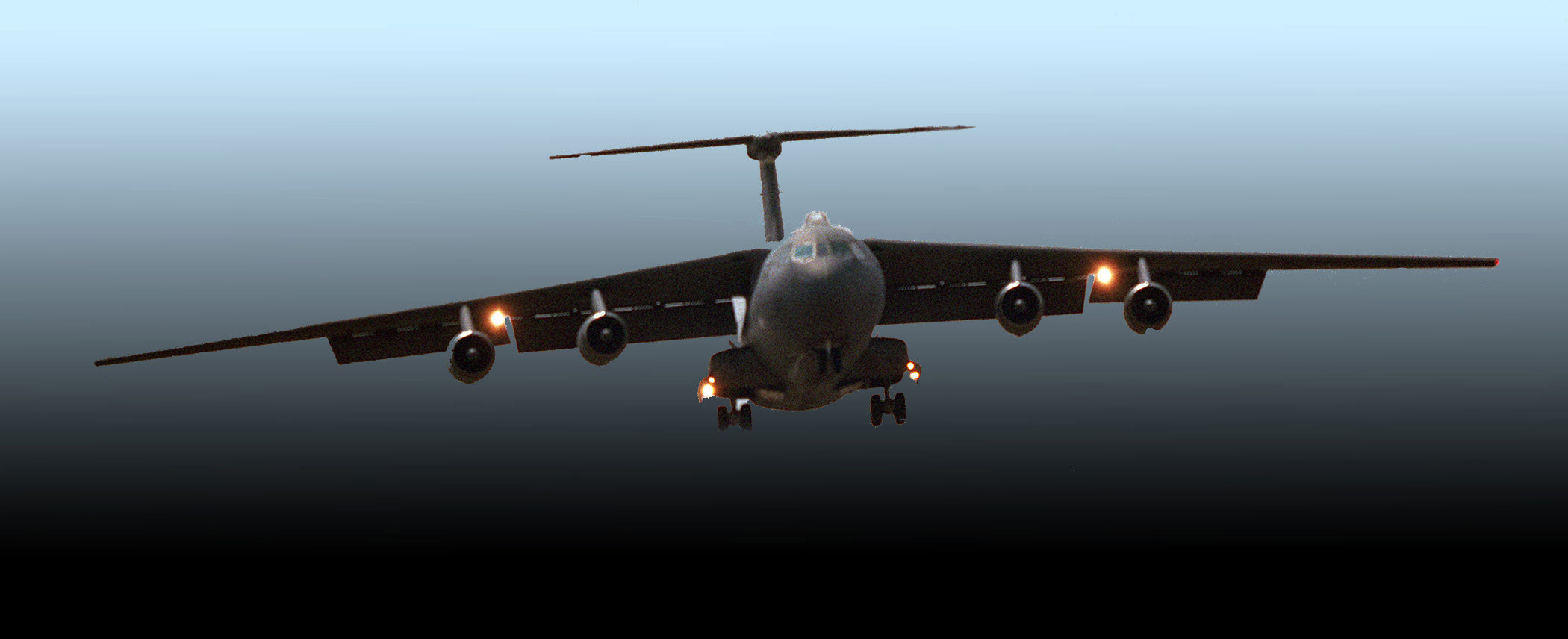 A C-141 aircraft leaves Aviano Air Base, Italy, April 26, 1999. The C-141 is one of many aircraft deployed to Aviano in support of NATO Operation Allied Force.